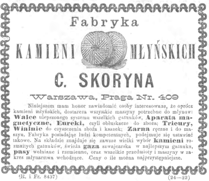 Newspaper ad for company "C. Skoryna i Spółka"